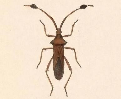 Biologia Centrali-Americana - Chariesterus robustus Cut-out from original (Biologia Centrali-Americana (8272542580).jpg) shown below